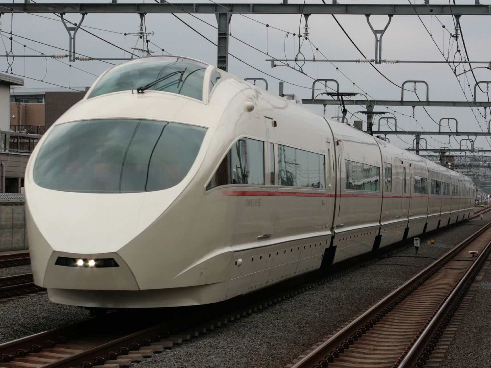 Odakyu Electric Railway's limited express train "Romancecar" 50000 Series VSE, Vault Super Express.